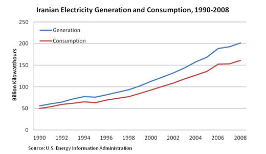 Iran's electricity generation and consumption, 1988-2007